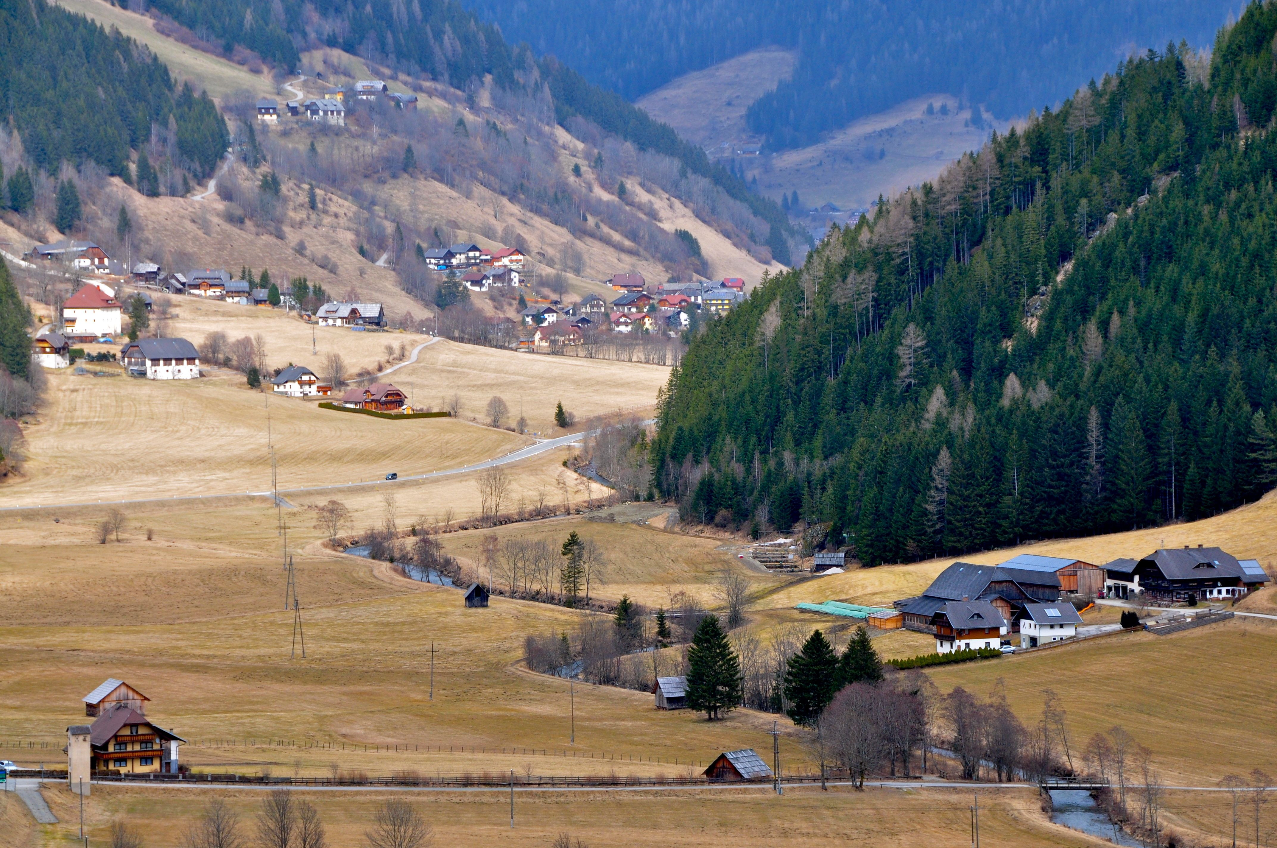 View at the upper Gurk valley with the village Seebach, municipality Reichenau, district Feldkirchen, Carinthia, Austria